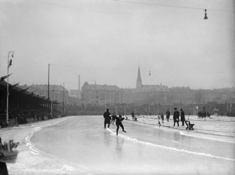 Finnish speedskater Clas Thunberg at Bislett in Oslo, Norway